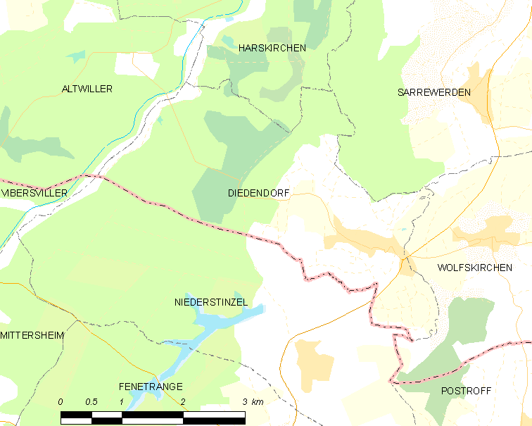 Map of French municipality